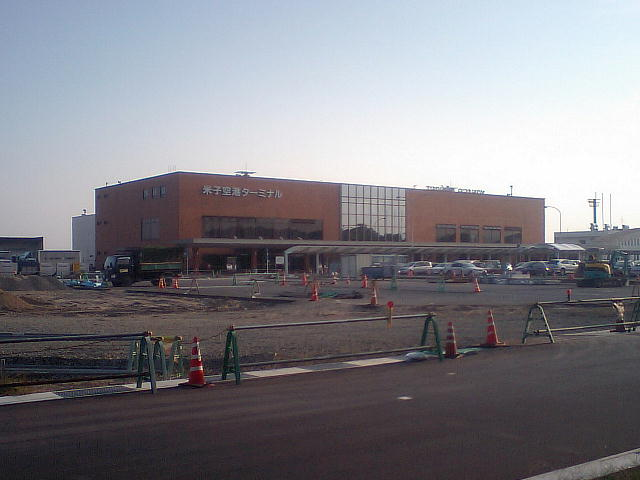 Yonago Airport (Miho Airport)